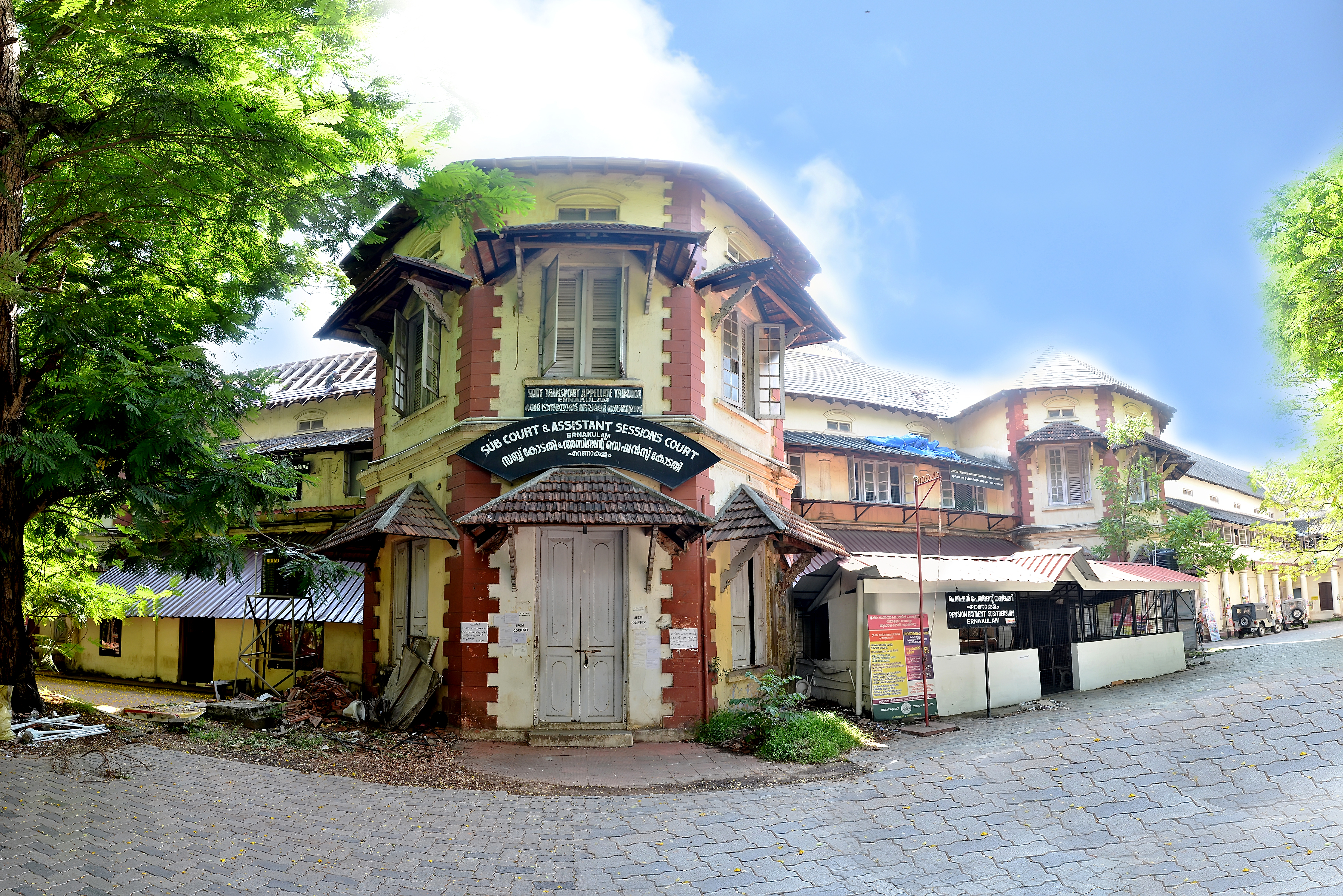 Ernakulam District Court Complex by Augustus Binu